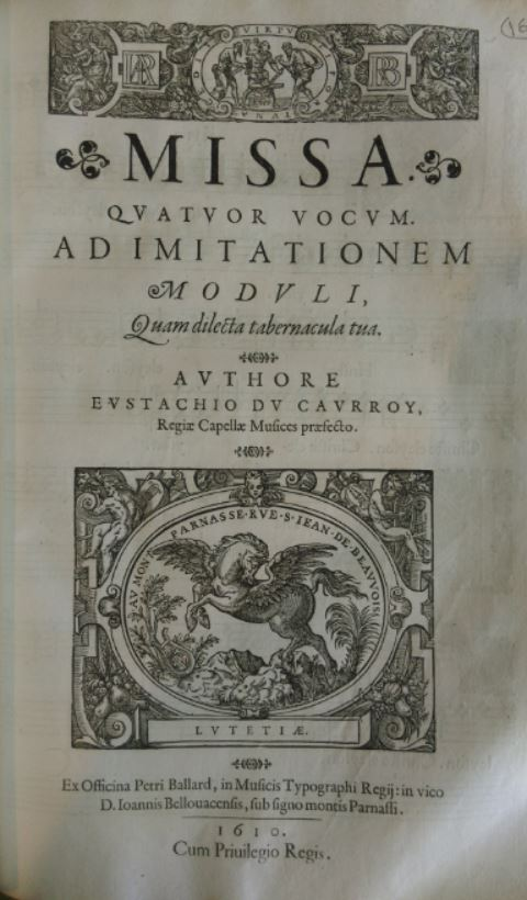 Title page of Du Caurroy's Missa Quam dilecta tabernacula tua (Paris, 1610).